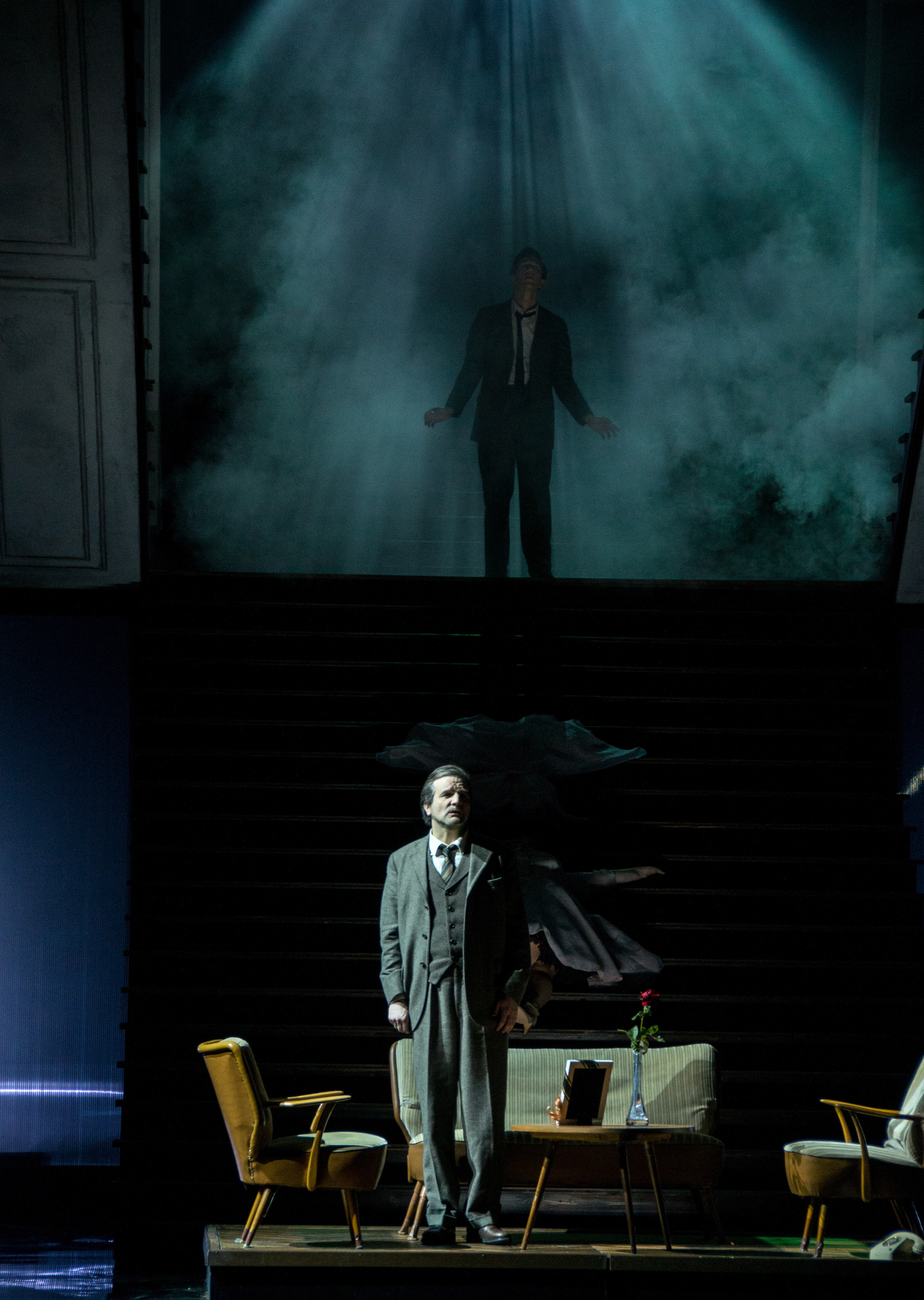 Graz Opera House